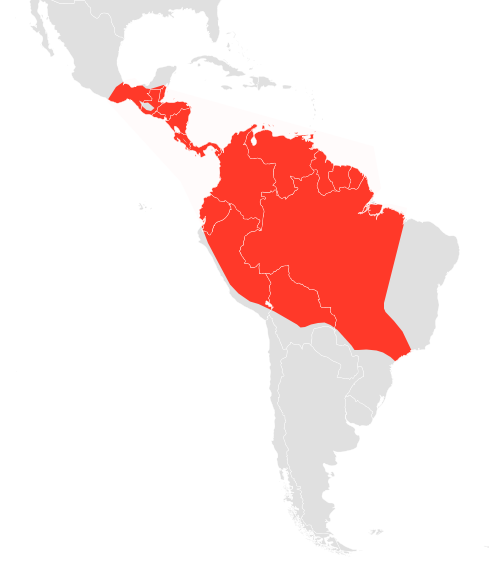 Distribution of Platyrrhinus helleri